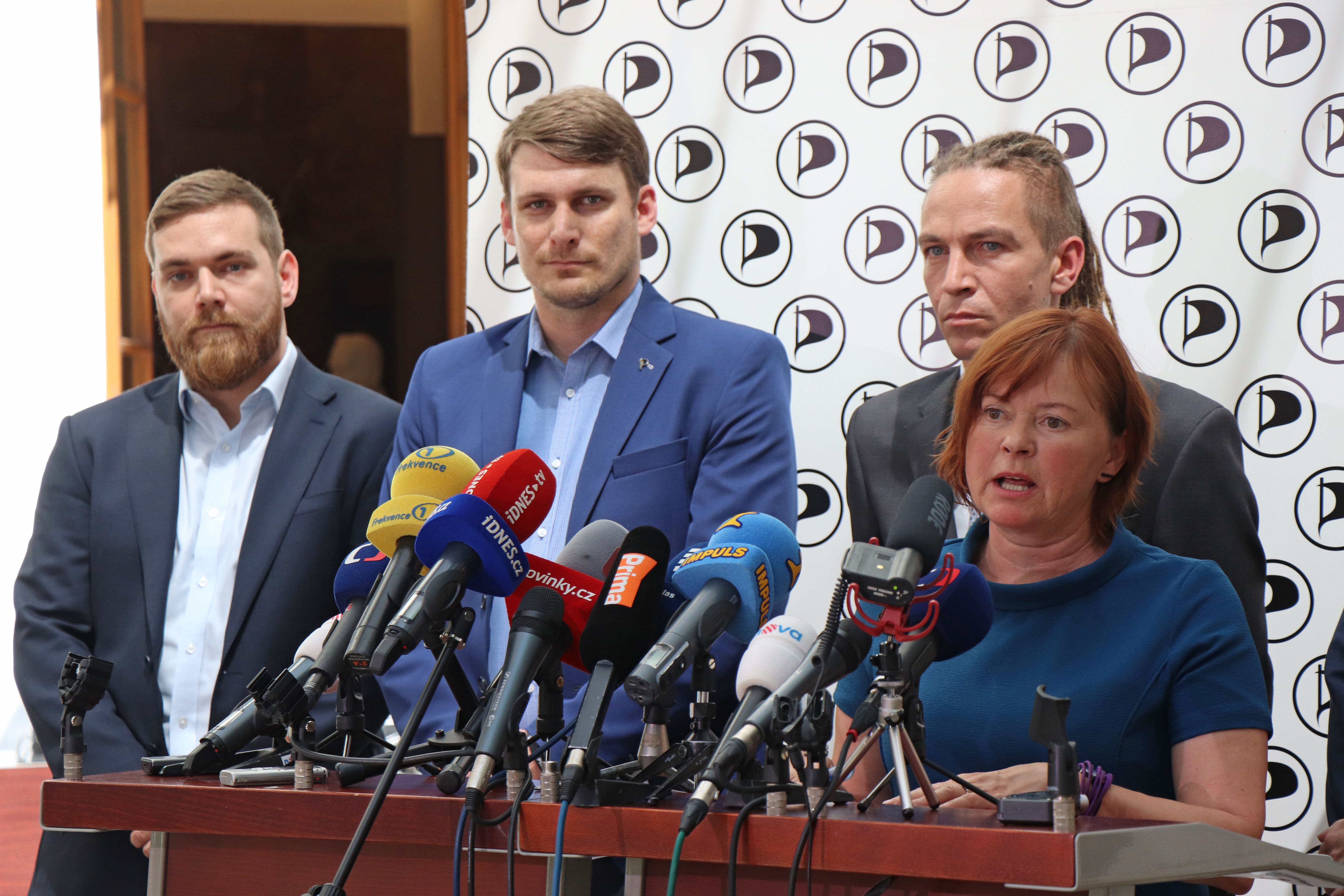 Czech Pirate Party press conference on 4 June 2019; party members and members of the Chamber of Deputies of the Parliament of the Czech Republic, left to right: Tomáš Vymazal, Lukáš Kolářík, Ivan Bartoš, Dana Balcarová